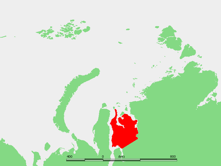 Kara Sea